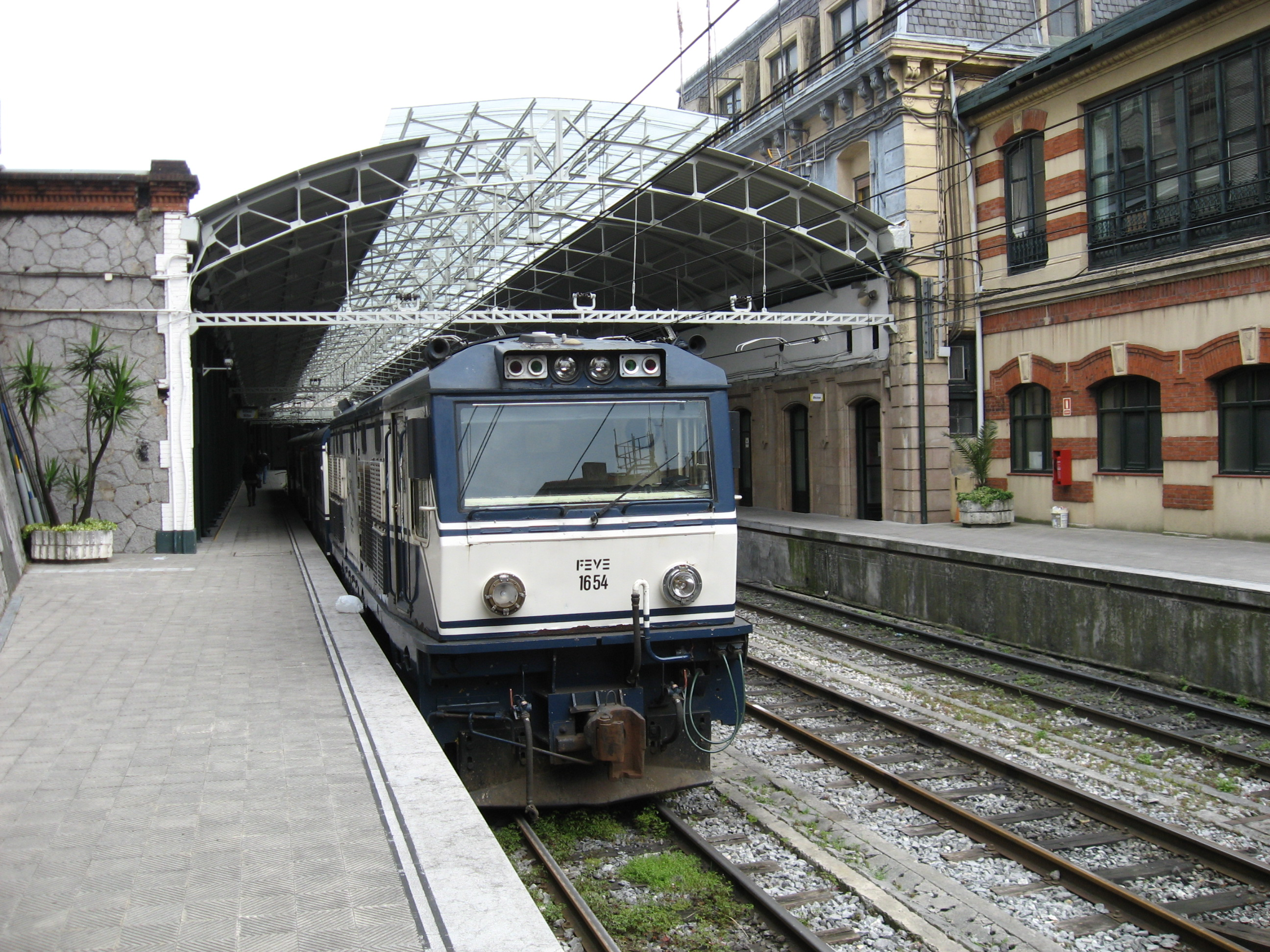 The daily long distance train to León ready for departure at the FEVE station Concordia Bilbao. Unusualy it is not a trainset.